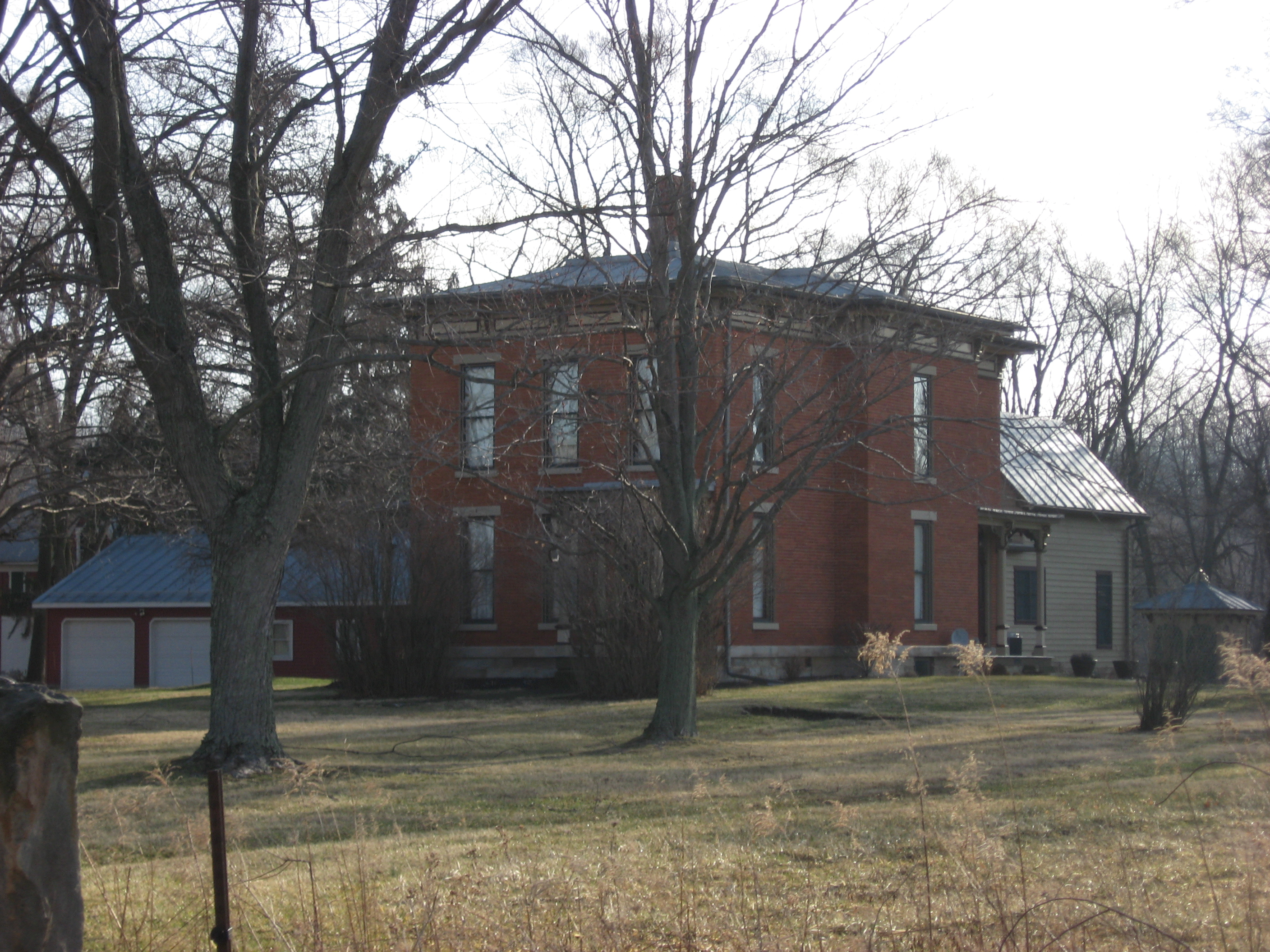 Front of the Samuel P. Brown House, located at 2405 County Road 24 south of Fulton in Lincoln Township, Morrow County, Ohio, United States. Built in 1880, it is listed on the National Register of Historic Places.